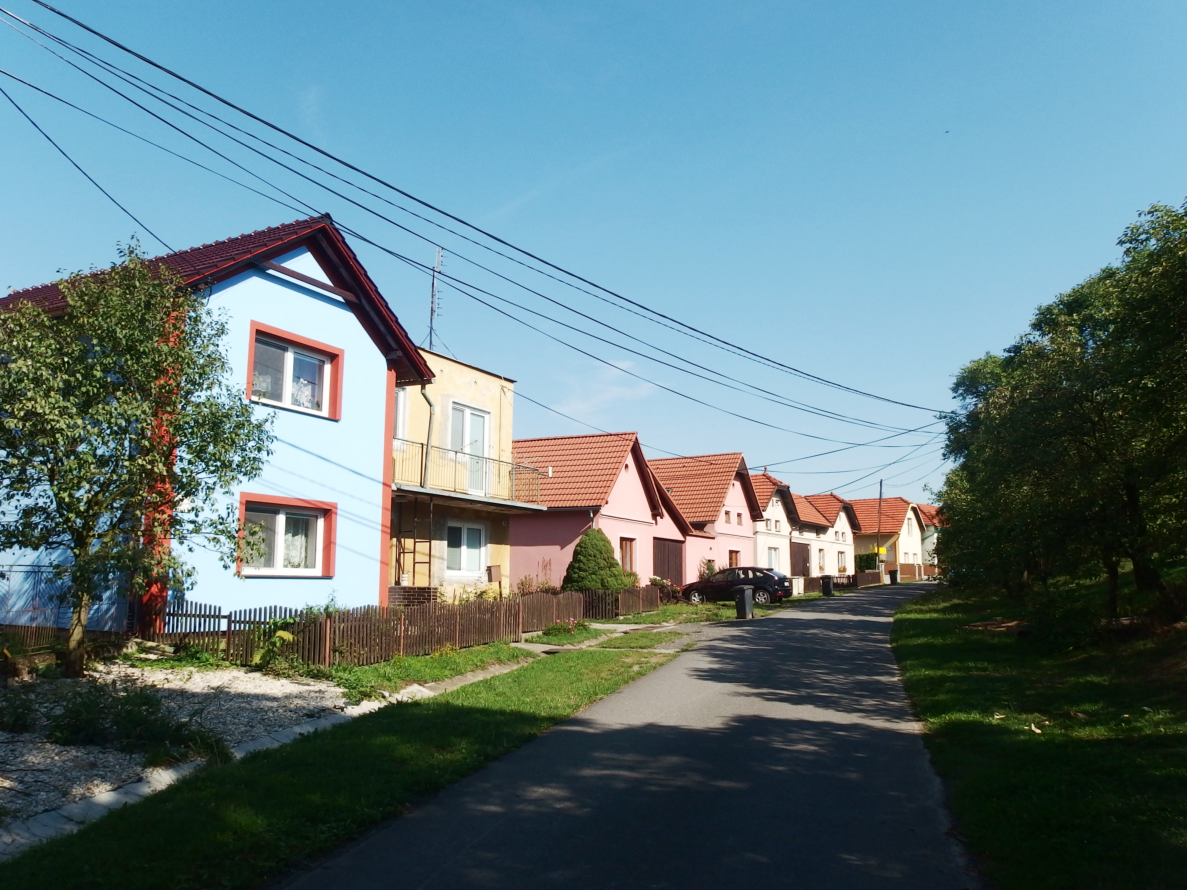 Jeseník nad Odrou, Nový Jičín District, Czech Republic, part Polouvsí.